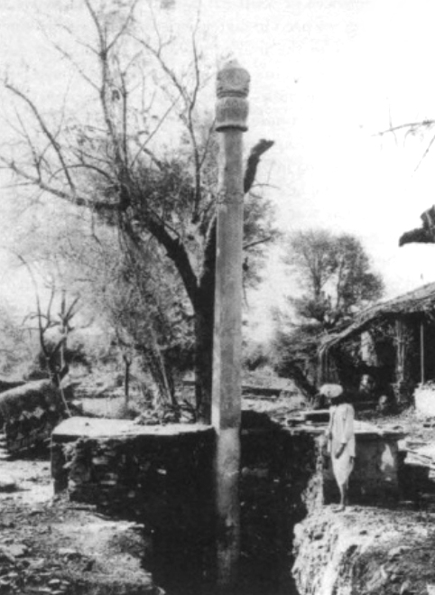 Heliodorus pillar 1913-15 excavation led by Bhandarkar